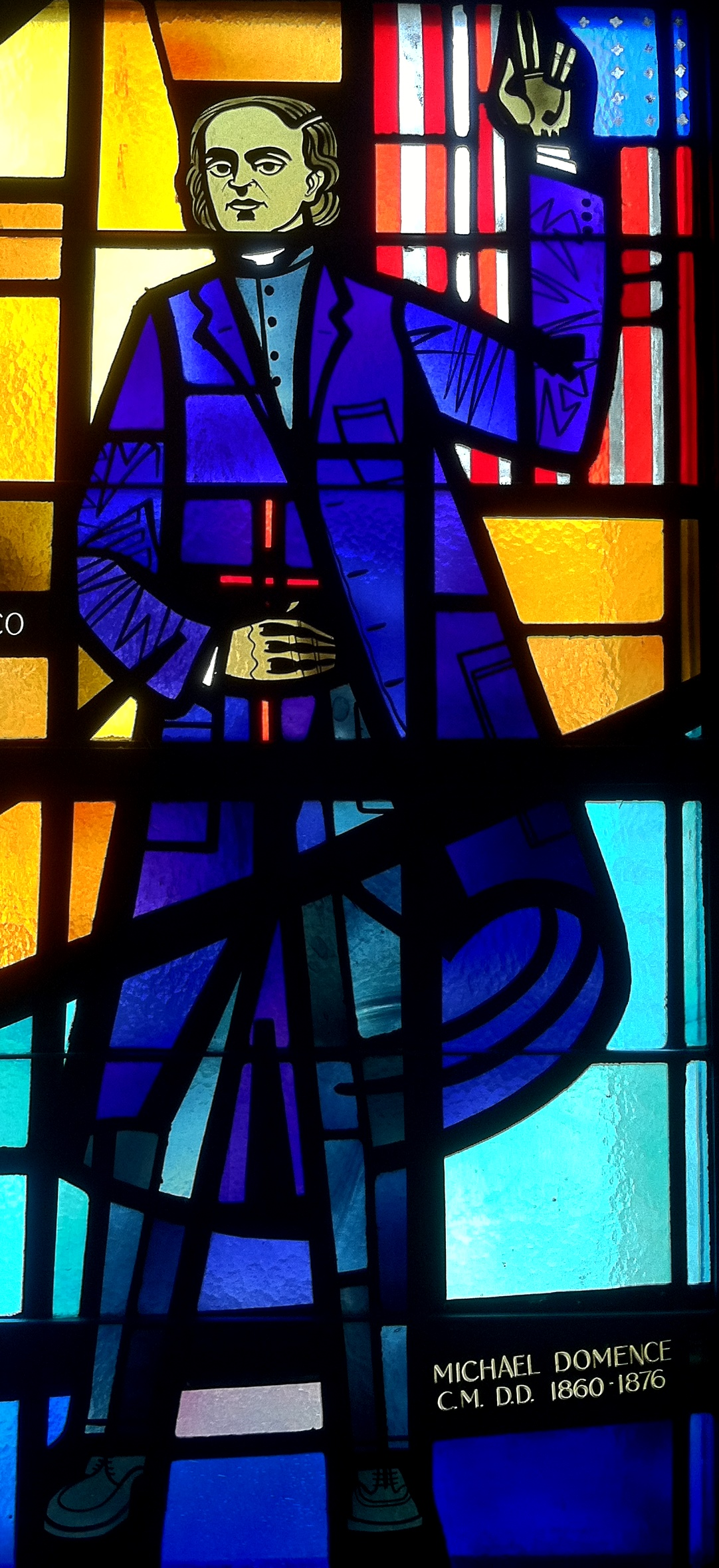 This is a stained glass depiction of Pittsburgh Bishop Michael Domenec. The window is located in Saint Patrick's Roman Catholic Church in Canonsburg, Pennsylvania.